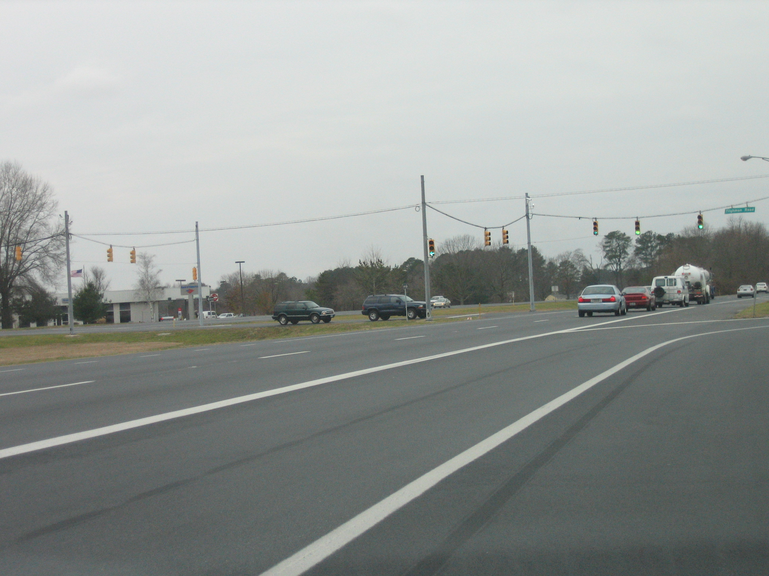 US 50 Business at Tilghman Drive, Salsbury, Maryland